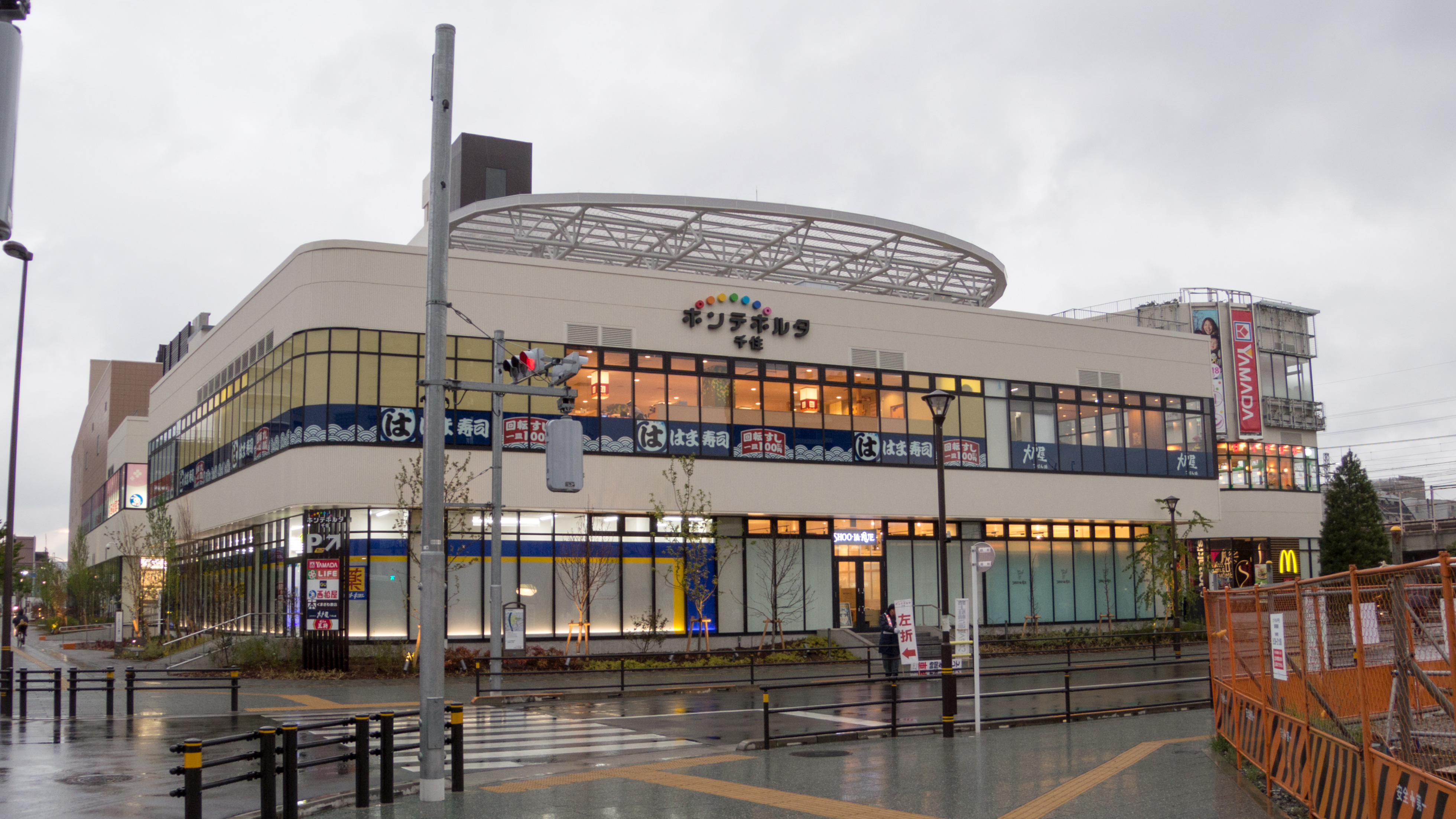 Ponteporta Senju